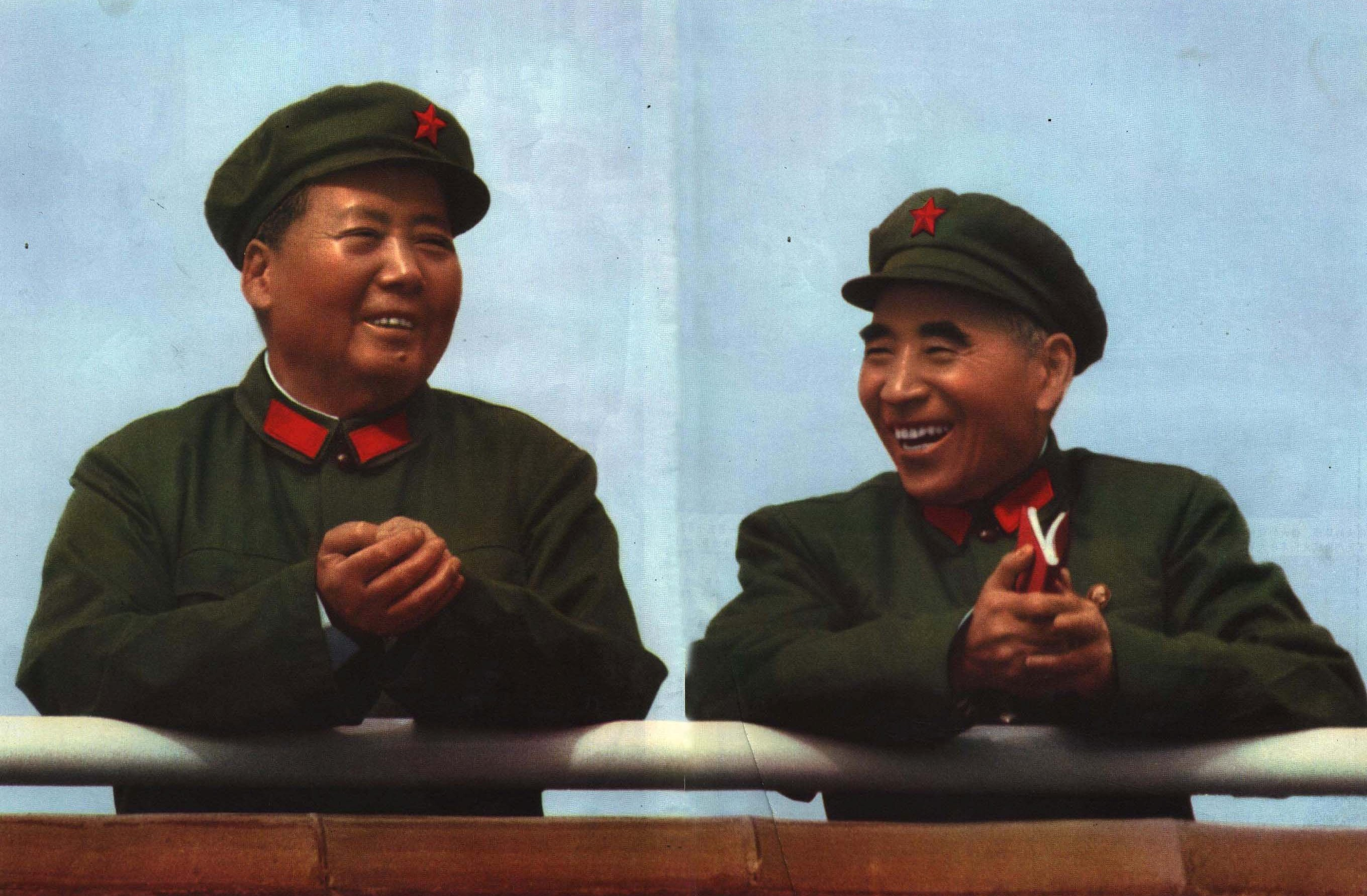 1967-01 1966年毛泽东与林彪2